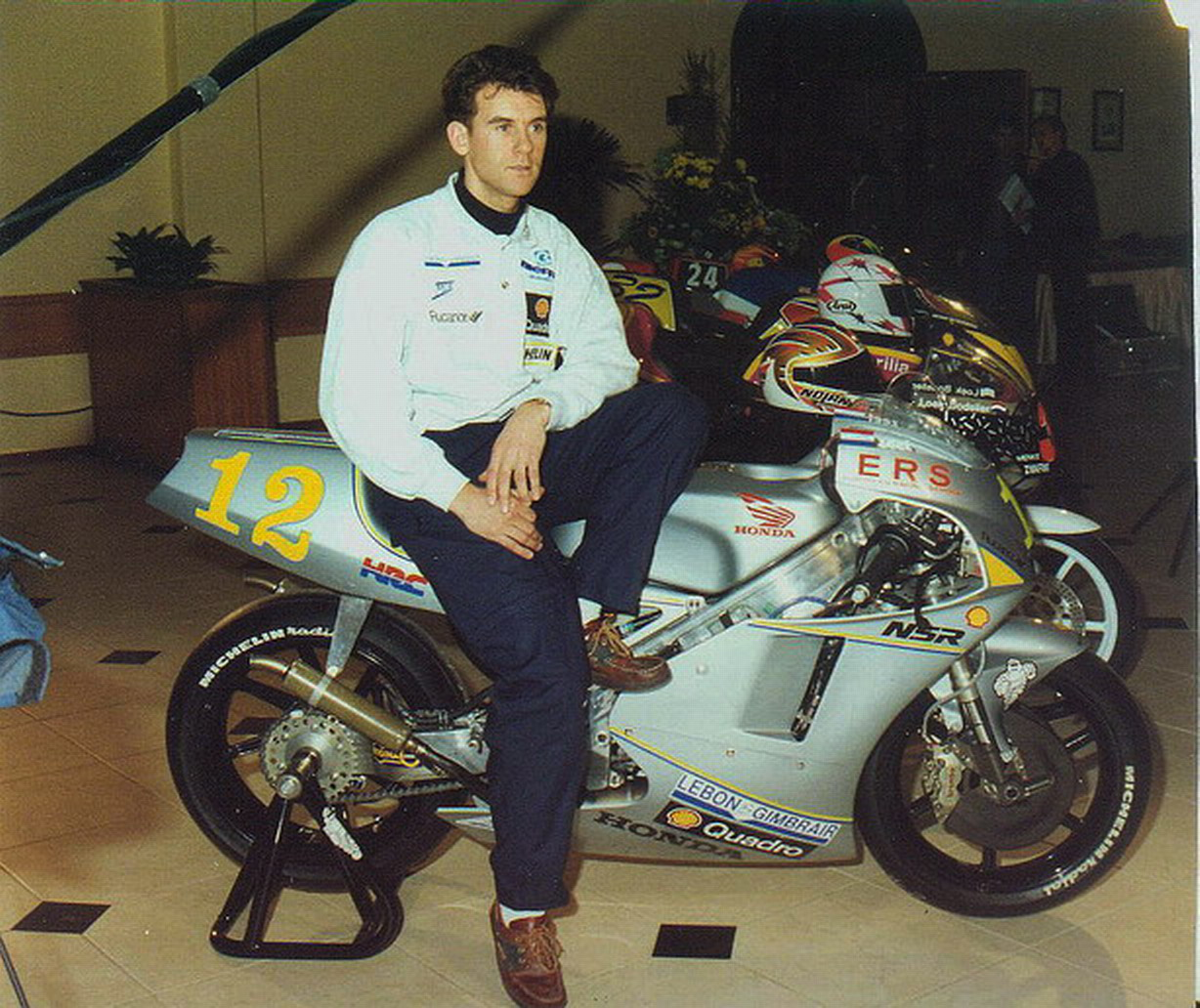 Wilco Zeelenberg, Dutch motorcycle racer, at the pressconference of the GP motorteams for the 1994 season at the Schiphol Hotel (Amsterdam)